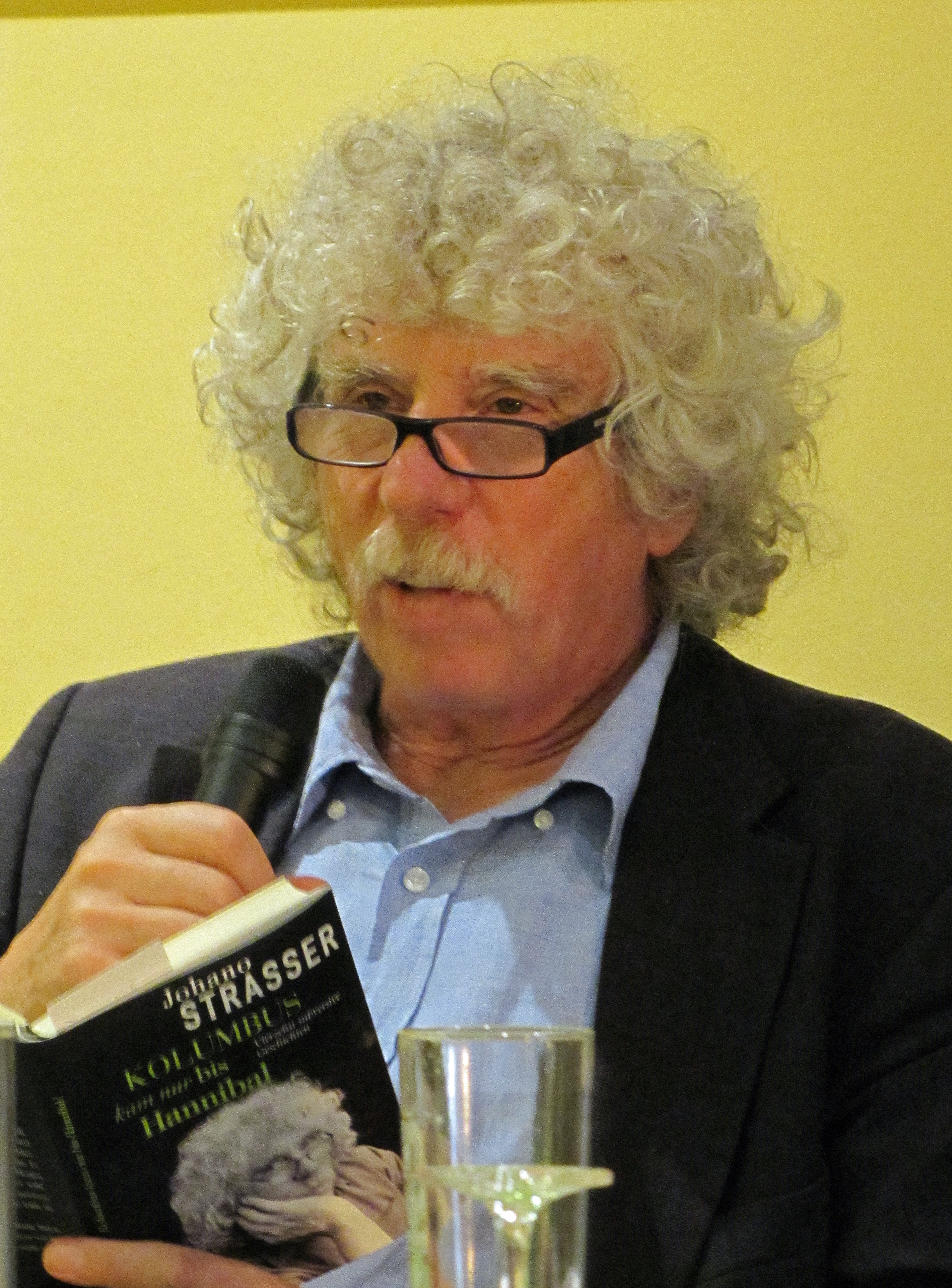 Johano Strasser, German writer, 2010 in Frankfurt am Main, Germany.